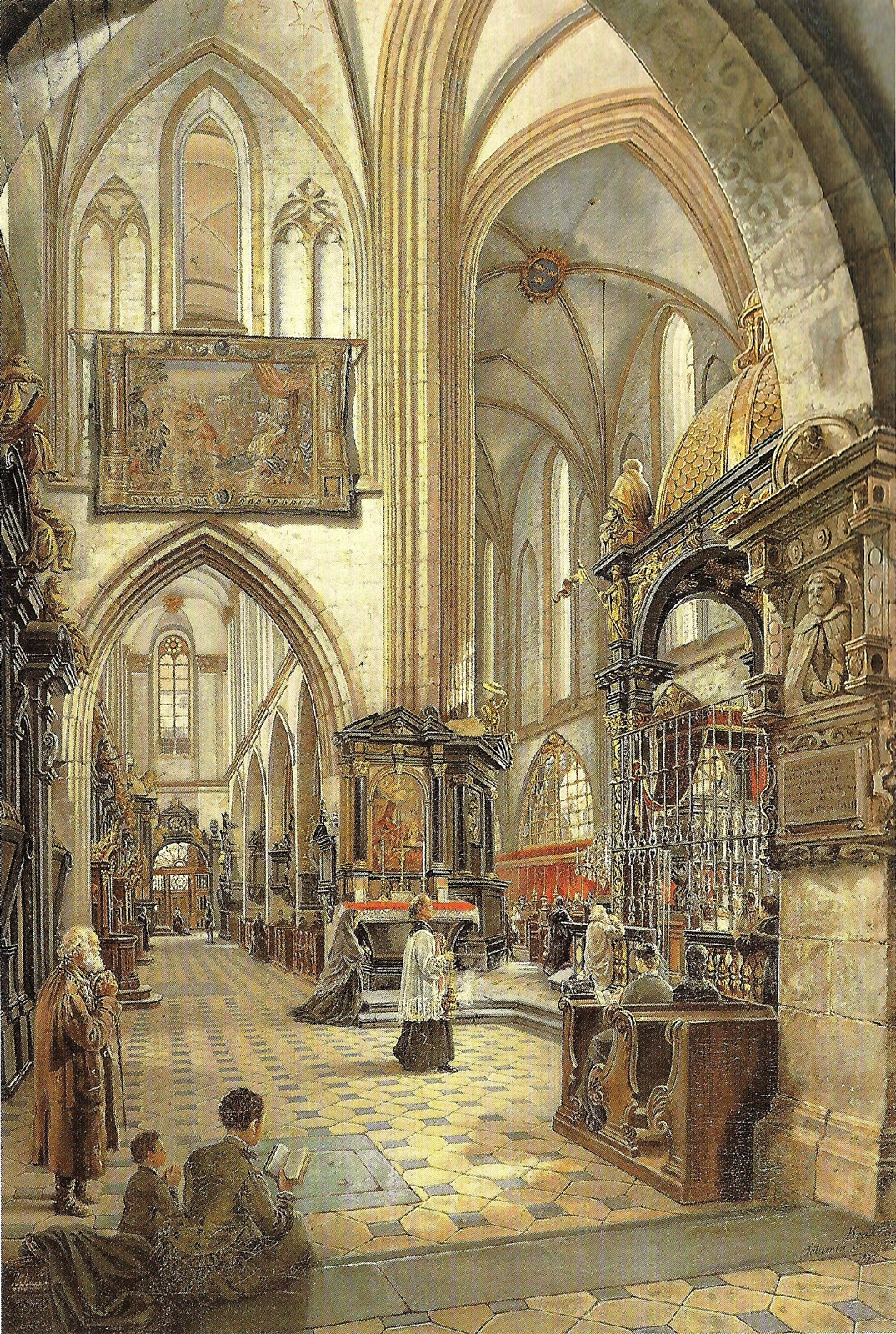 Interior of the Wawel Cathedral. Collection of Wawel Castle